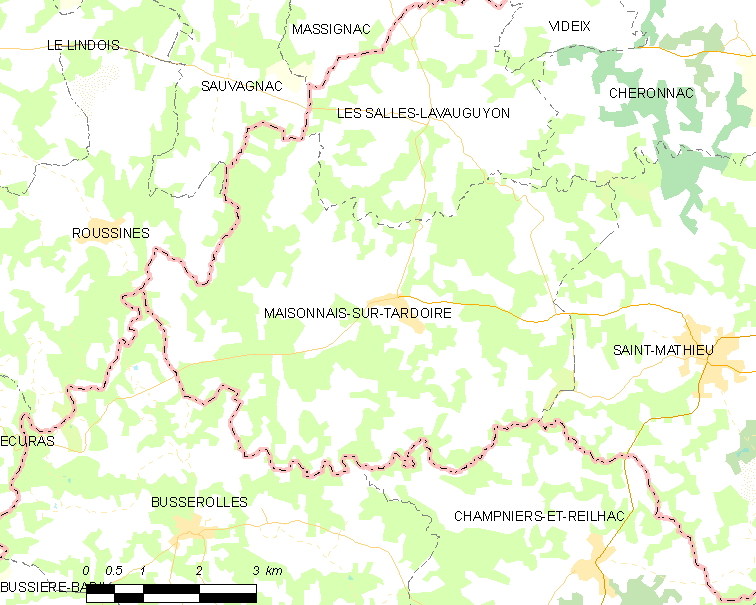 Map of French municipality Maisonnais-sur-Tardoire